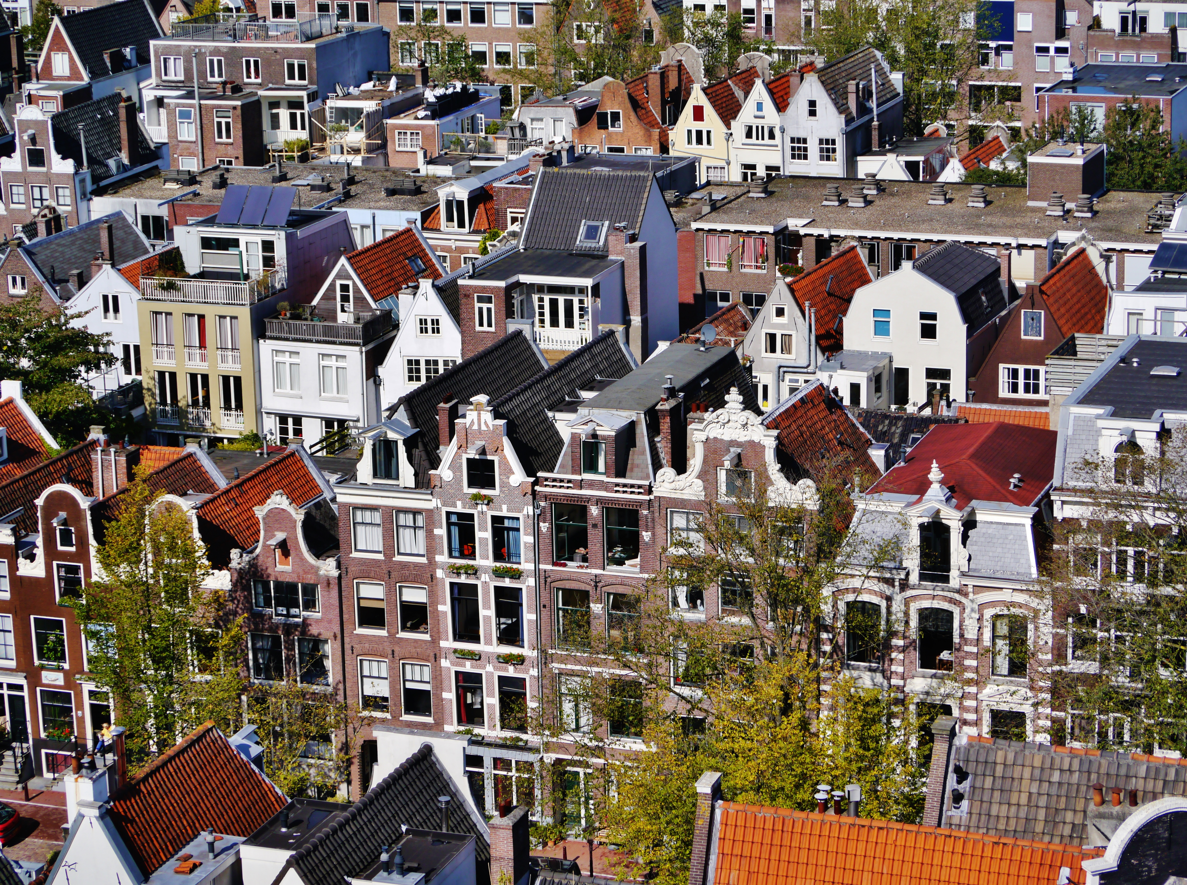 View from the Tower of the West Church, Amsterdam, Province of North Holland, Netherlands